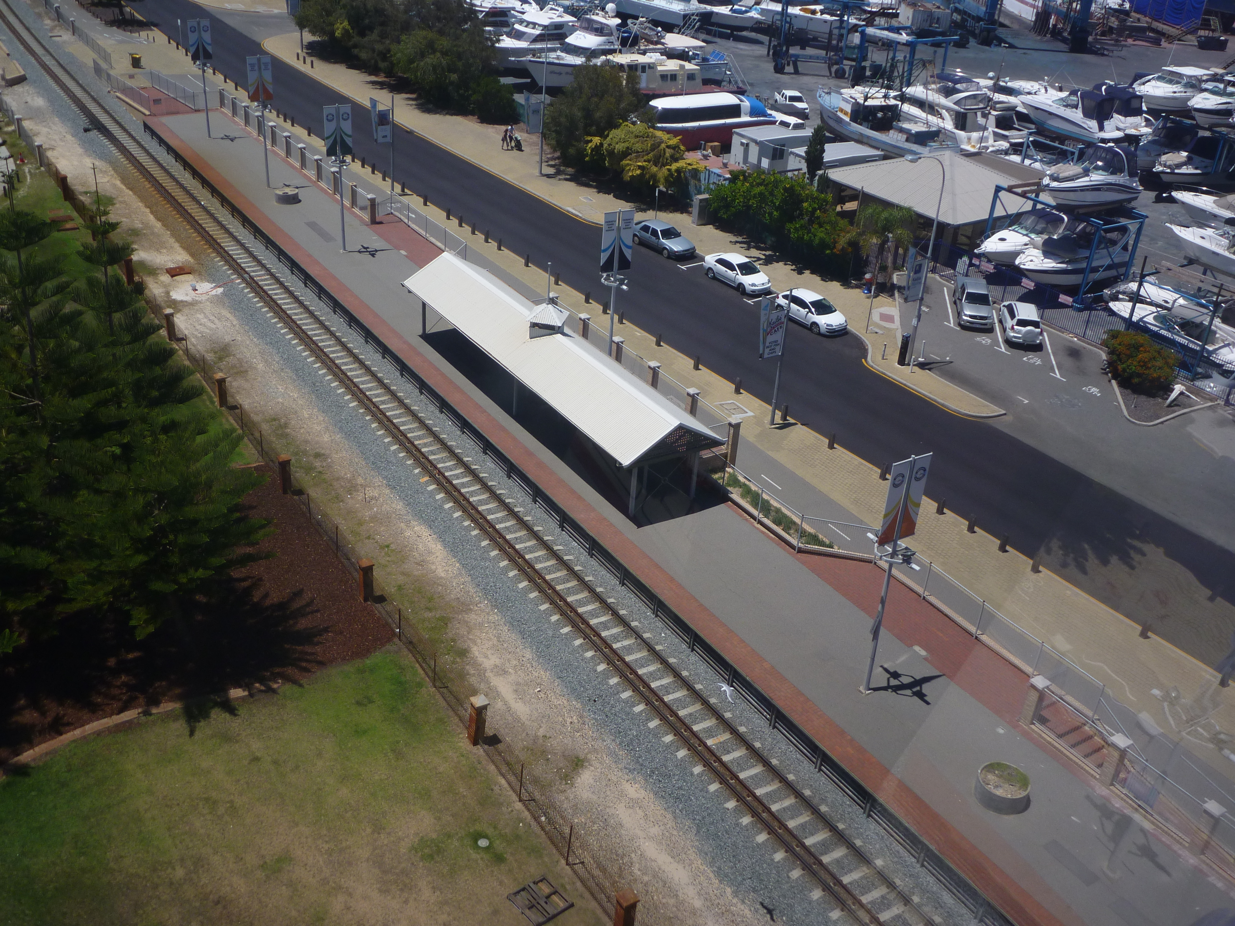 Looking south from the top of the ferris wheel.